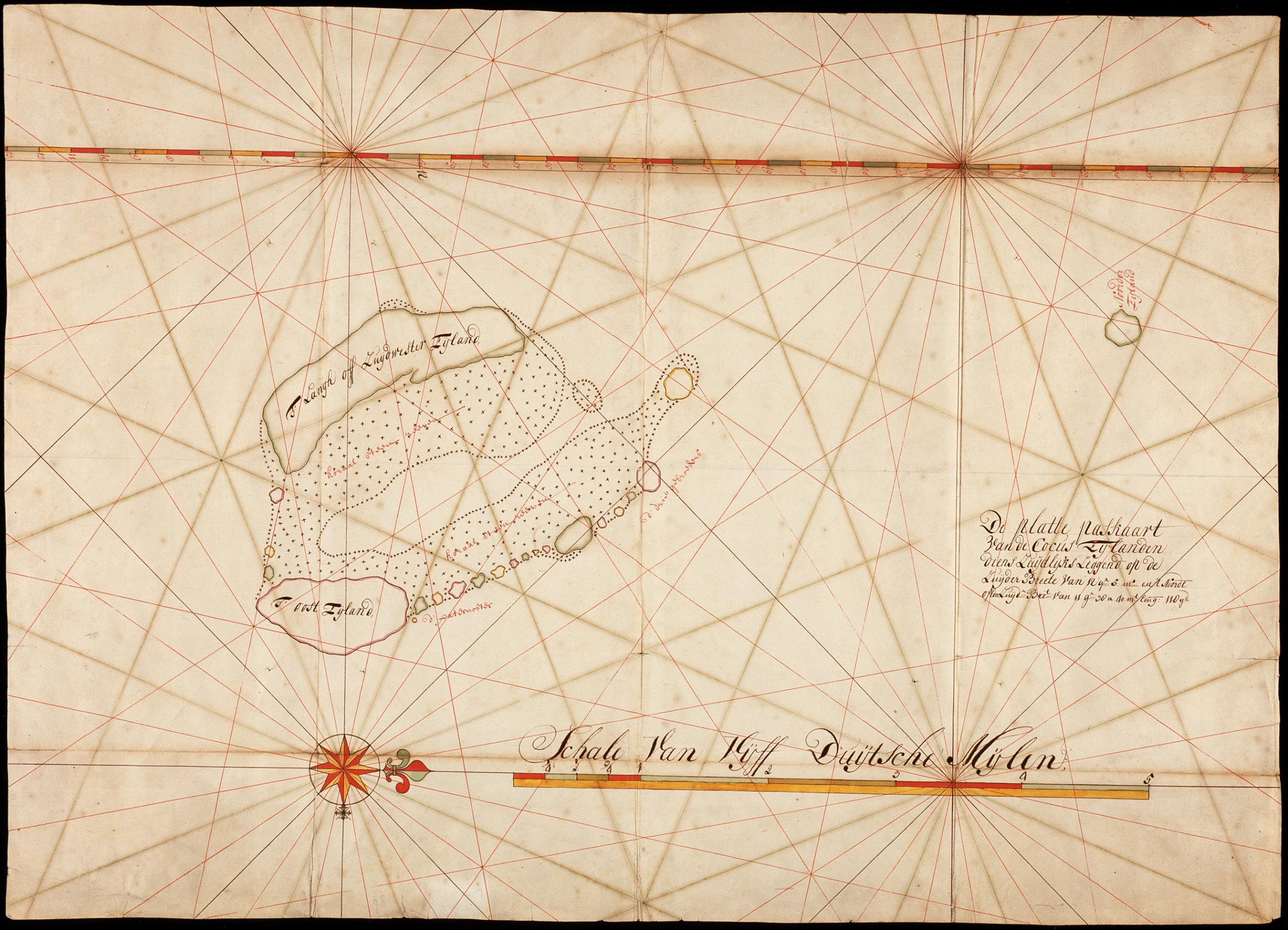 Title in the Leupe catalogue (National Archives): Platte paskaart van de Cocus-Eylanden, diens Zuydelijks liggende op de Z.Br. van 12 gr. 15 min., en 't Noordl. op de Z.Br. van 11 gr. 38 à 40 min., Lengte 118 gr.. Notes on reverse: 1725 N2 / 413 [folio number in the file ?] / 414 [folio number in the file ?] / No. 21 [serial number of the item in the folder ?].